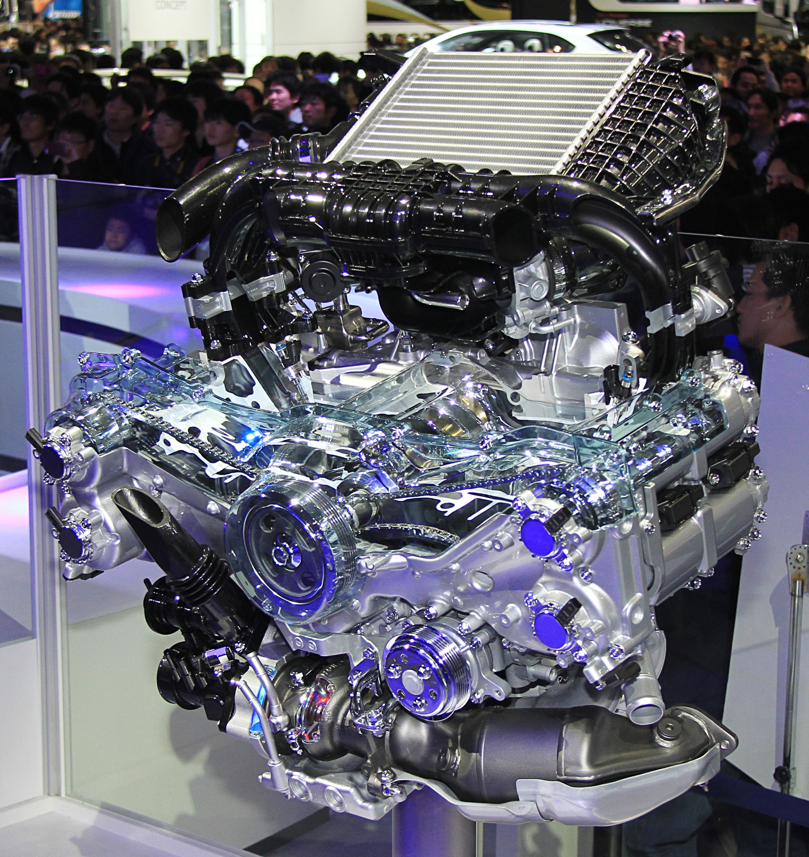 Subaru 1.6 DIT